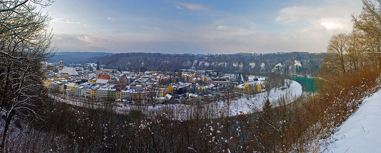 Wasserburg am Inn